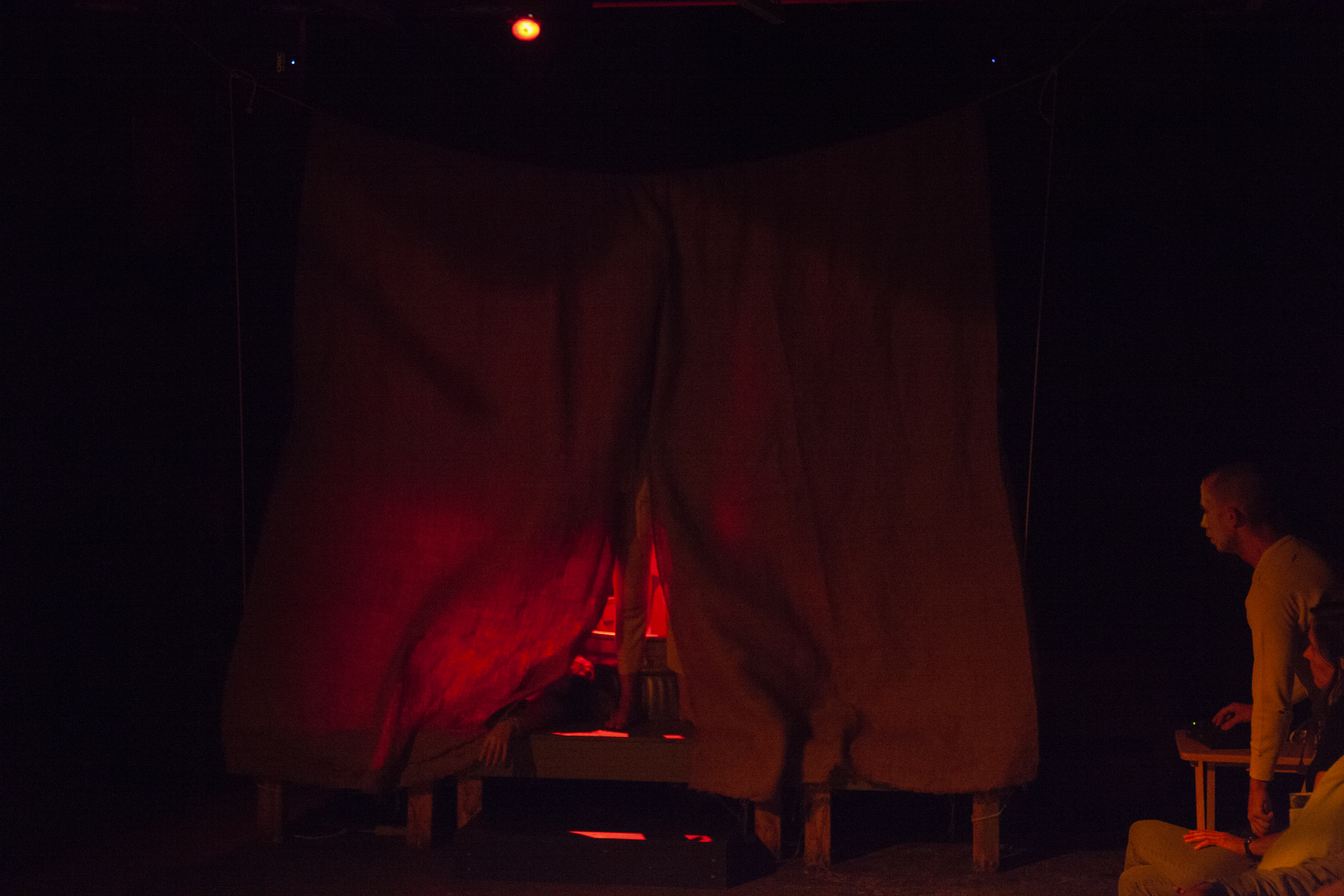 Oresteia by Aeschylus, adapted by Ryan Castalia for Stairwell Theater, 2019